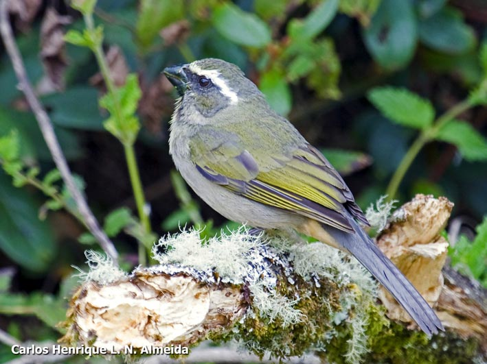 Saltator maxillosus at ltatiaia National Park (Itamonte, Minas Gerais, Brazil)